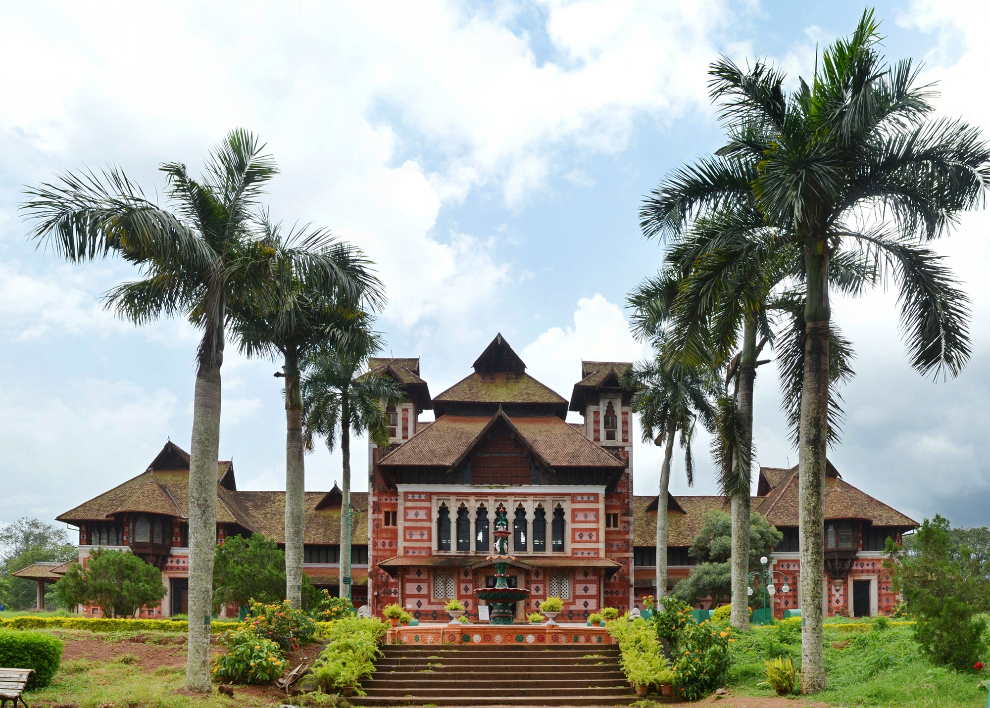 Napier Museum Thiruvananthapuran